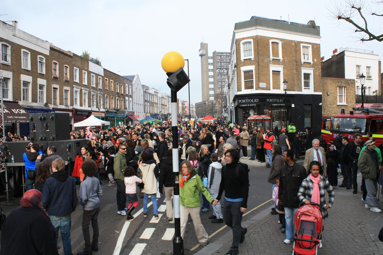 London, Golborne Road Festival in Brazilian style